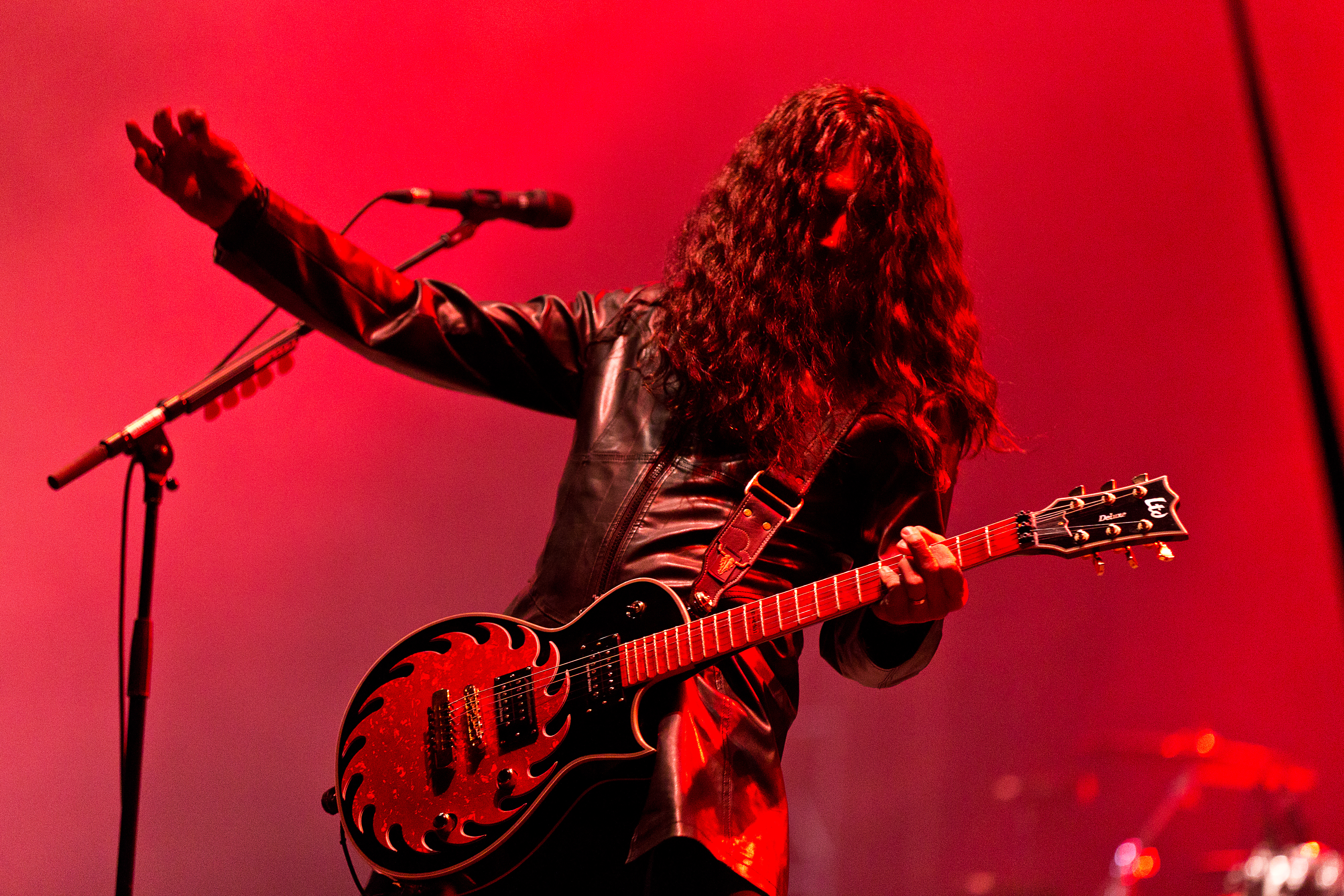 The American heavy metal band W.A.S.P. at the Rockharz Open Air 2015 in Ballenstedt/Germany.